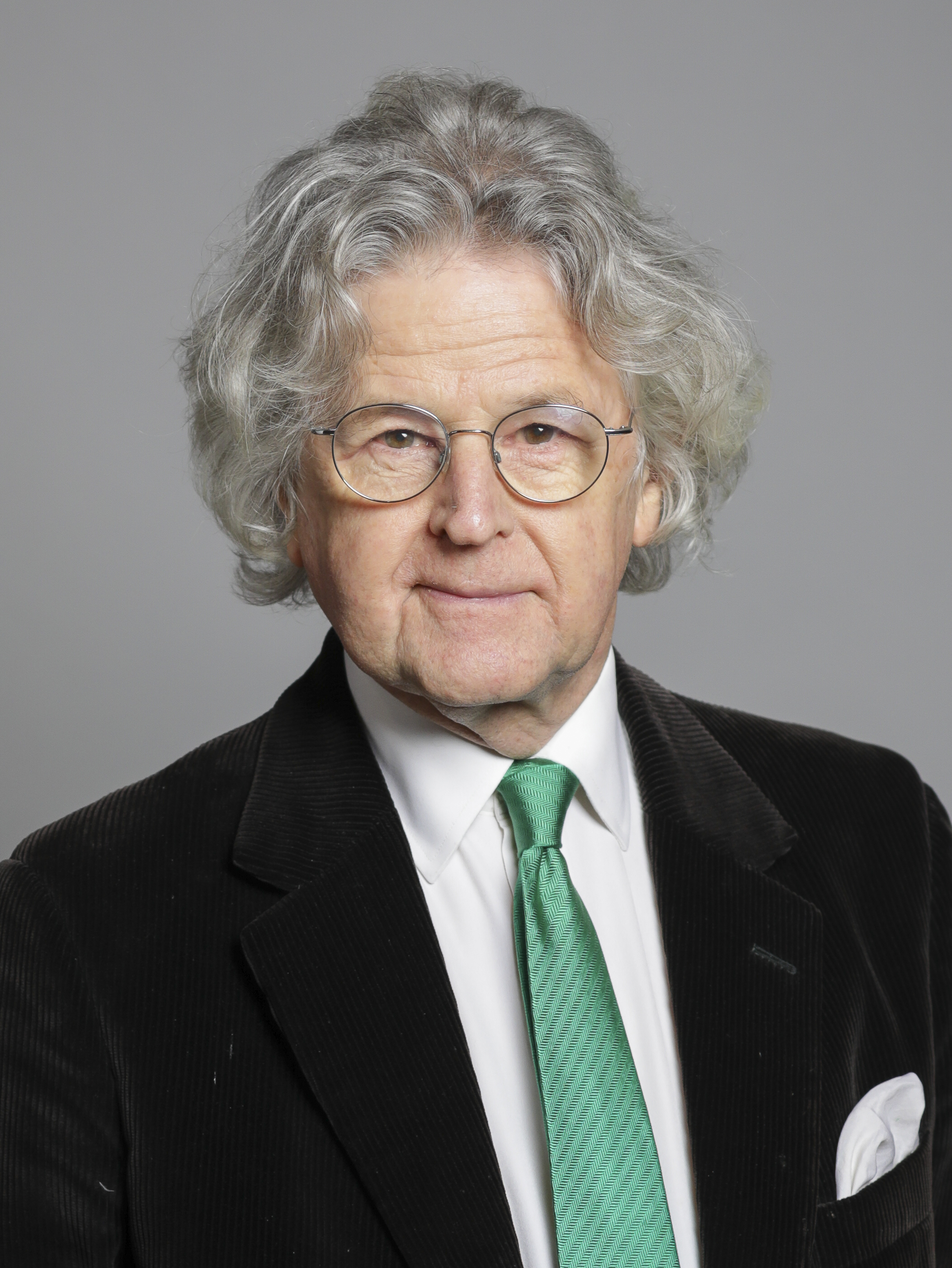 Official portrait of Lord Ryder of Wensum Full sized portrait of Lord Ryder of Wensum